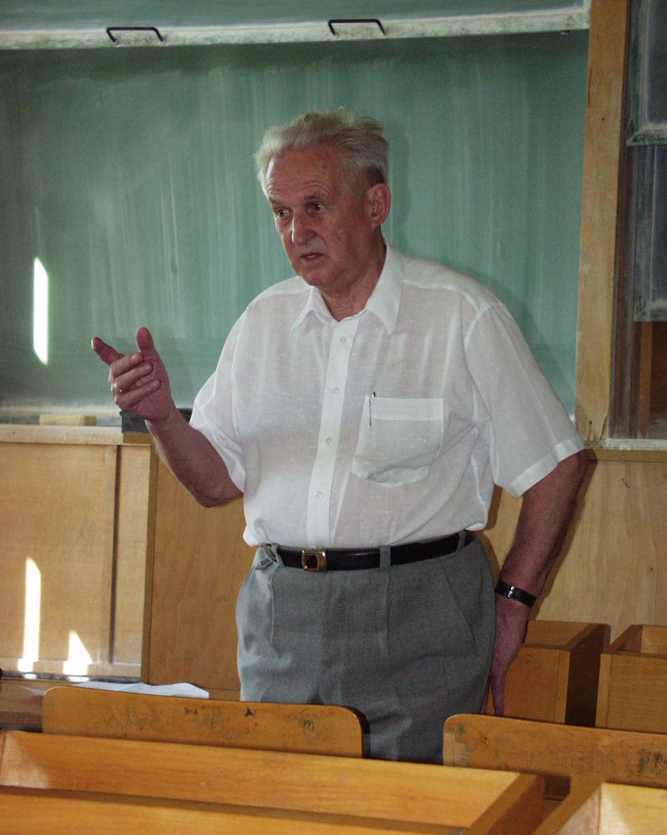 József Dombi, Hungarian physicist.